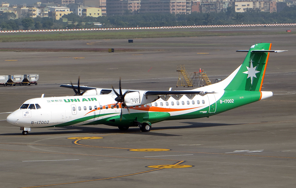 B-17002 ATR72-600 of Uni Air at Kaohsiung on January 6, 2013